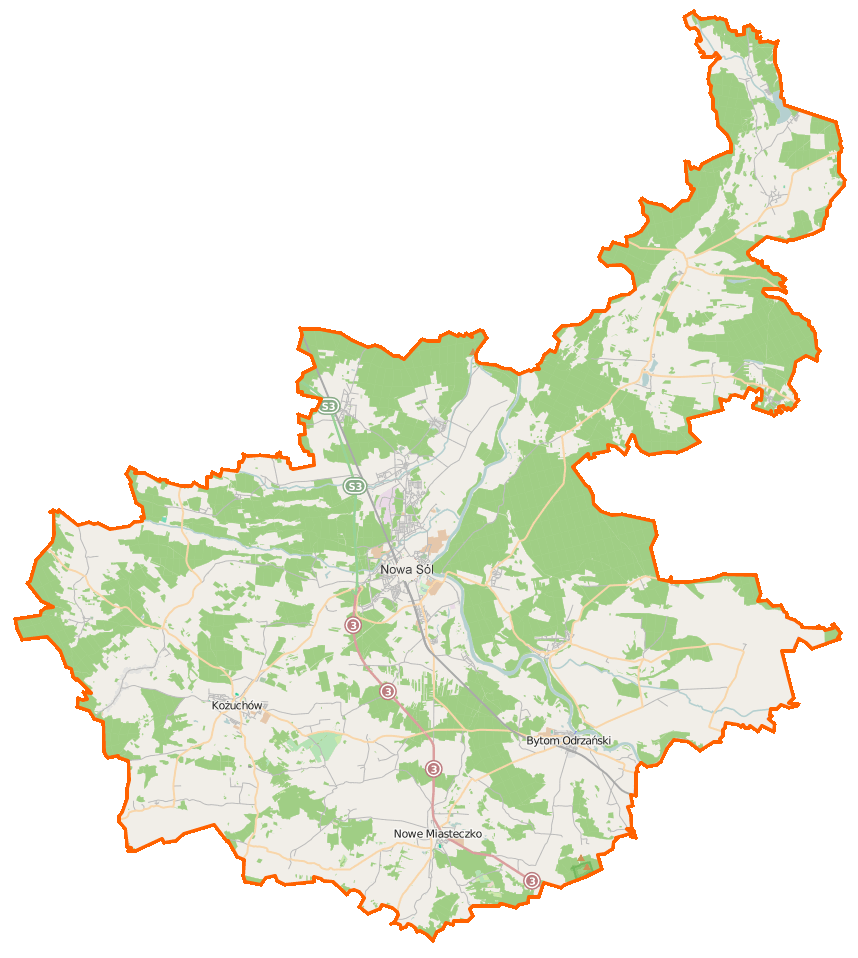 Map of Powiat nowosolski, Poland This map of Powiat nowosolski was created from OpenStreetMap project data, collected by the community. This map may be incomplete, and may contain errors. Don't rely solely on it for navigation.